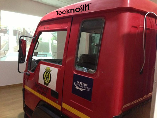 Advanced Eco Driving Simulators developed by Tecknotrove used for training & assessment of bus drivers on Fuel Efficient Driving